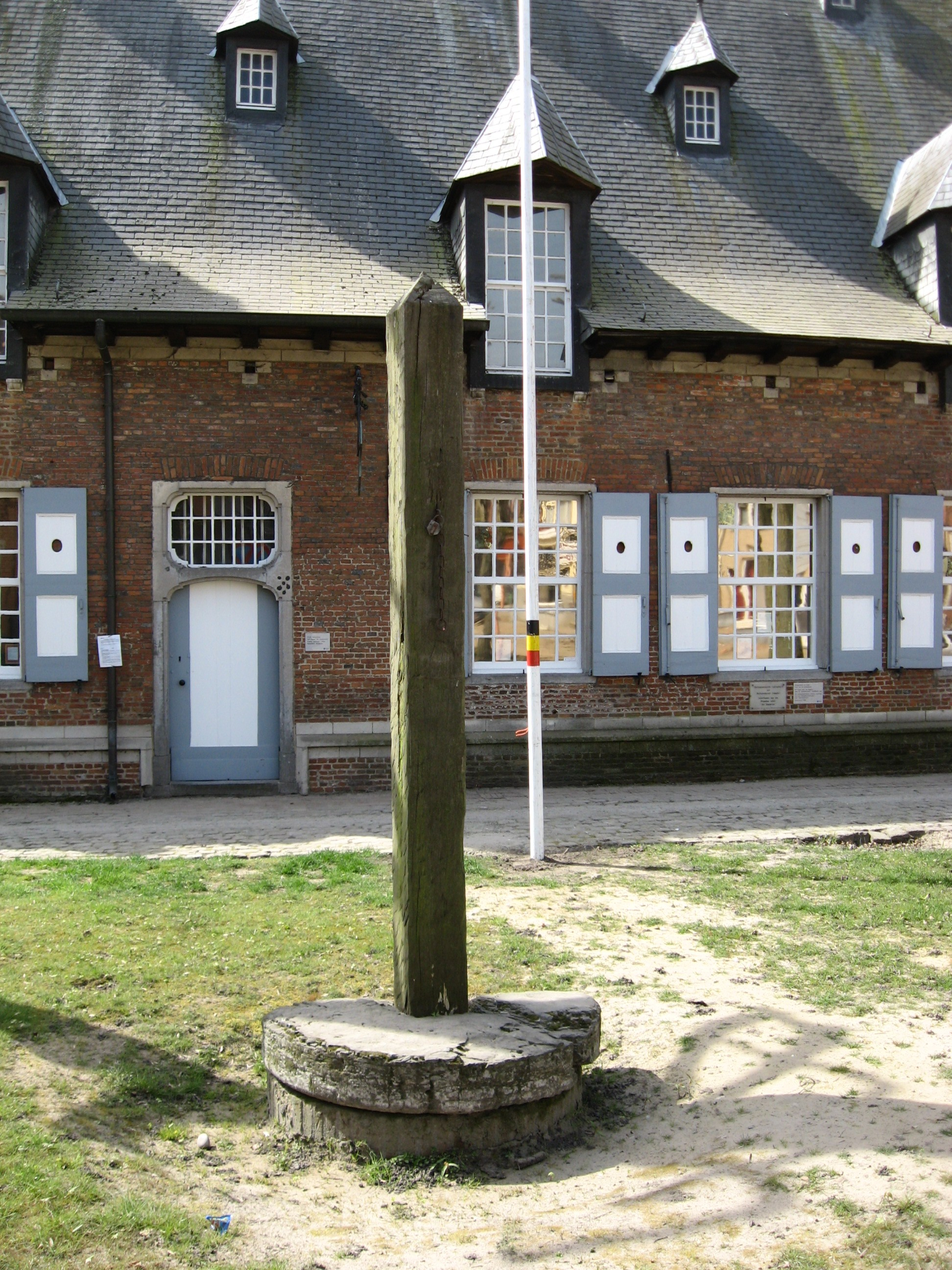 Pillory in Brecht. Criminals were chained to the post.